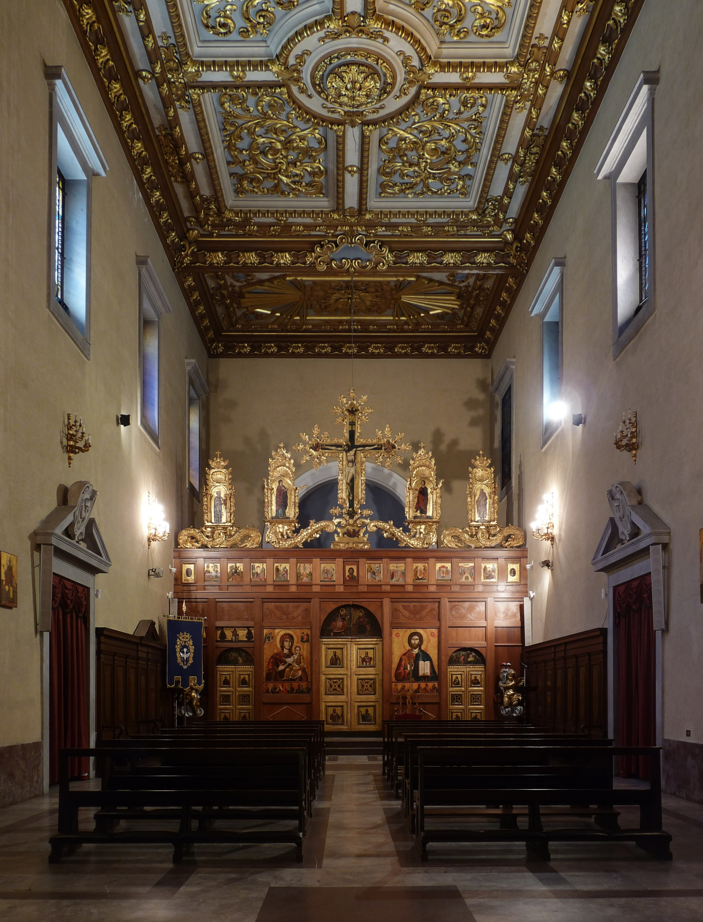 Chiesa della Santissima Annunziata, Livorno, Tuscany, Italy